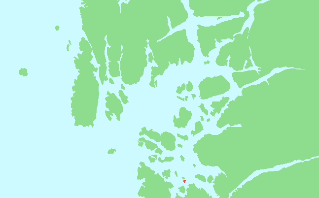 Locator map of Kalvøy, Rogaland, Norway